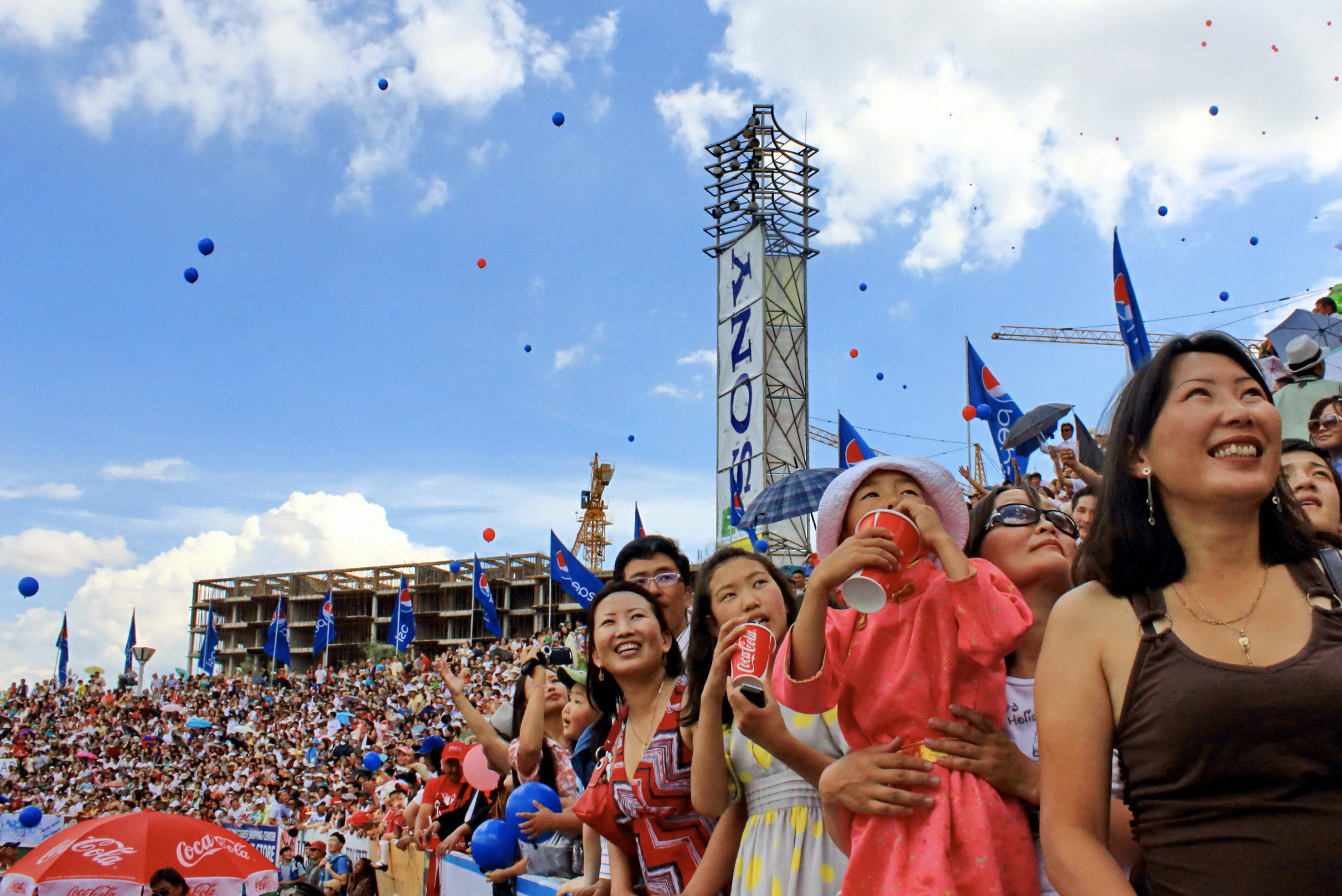 Naadam festival at the national stadium. Ulan Bator, Mongolia.